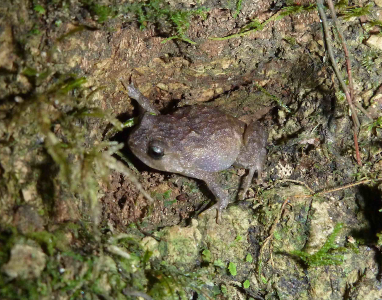 Oreophryne monticola in Rinjani National Park (Lombok (Lesser Sunda Islands), Indonesia)